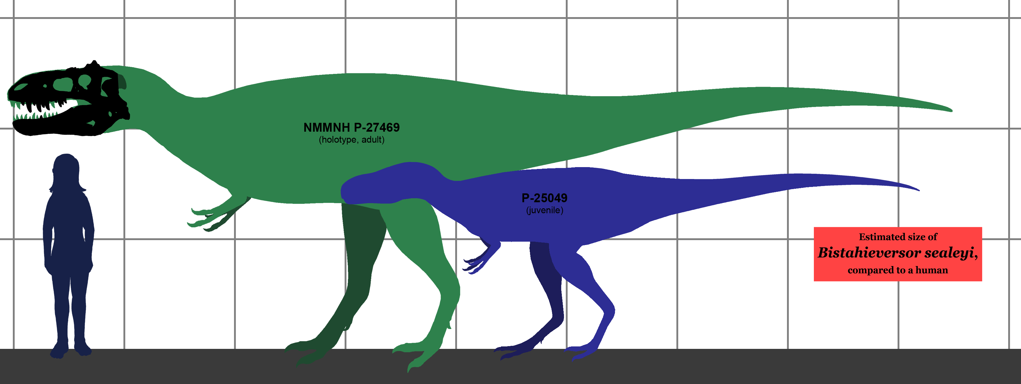 Estimated size of the theropod dinosaur Bistahieversor sealeyi,[1] compared to a human. Size of the holotype (NMMNH P-27469) based on the size of the skull, with body proportions based on the closely related Tyrannosauridae. Size of the juvenile P-25049 based on size estimation from [New Mexico Museum of Natural History and Science], based on the known fossil pieces.[2] References ↑ Carr, T. D. and Williamson, T.E. (2000). "A review of Tyrannosauridae (Dinosauria: Coelurosauria) from New Mexico." New Mexico Museum of Natural History and Science Bulletin, 17: 113–145. ↑